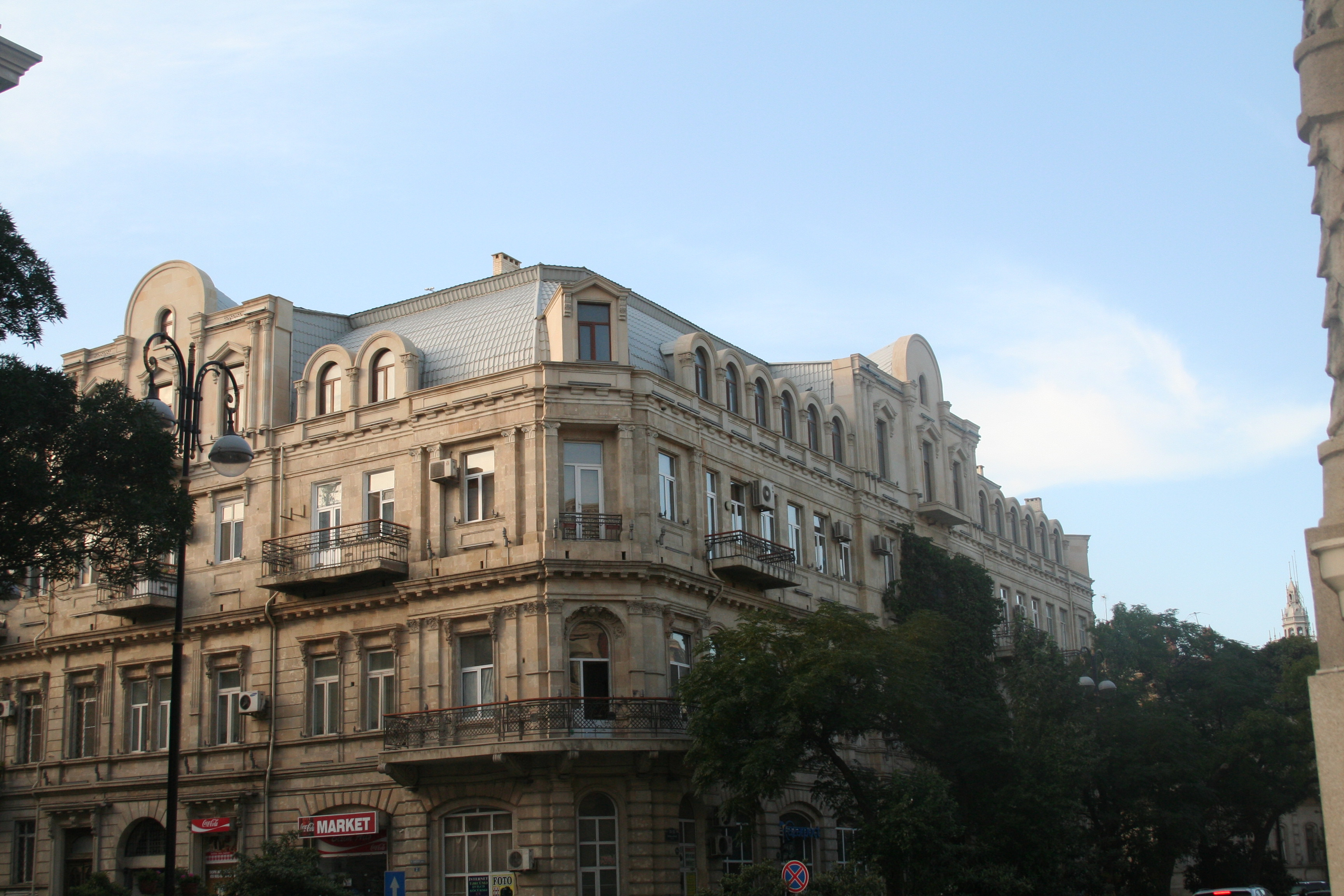 Building on Istiglaliyyat Street 35. Built by Meshadi Mirza Qafar Ismayilov in 1886.